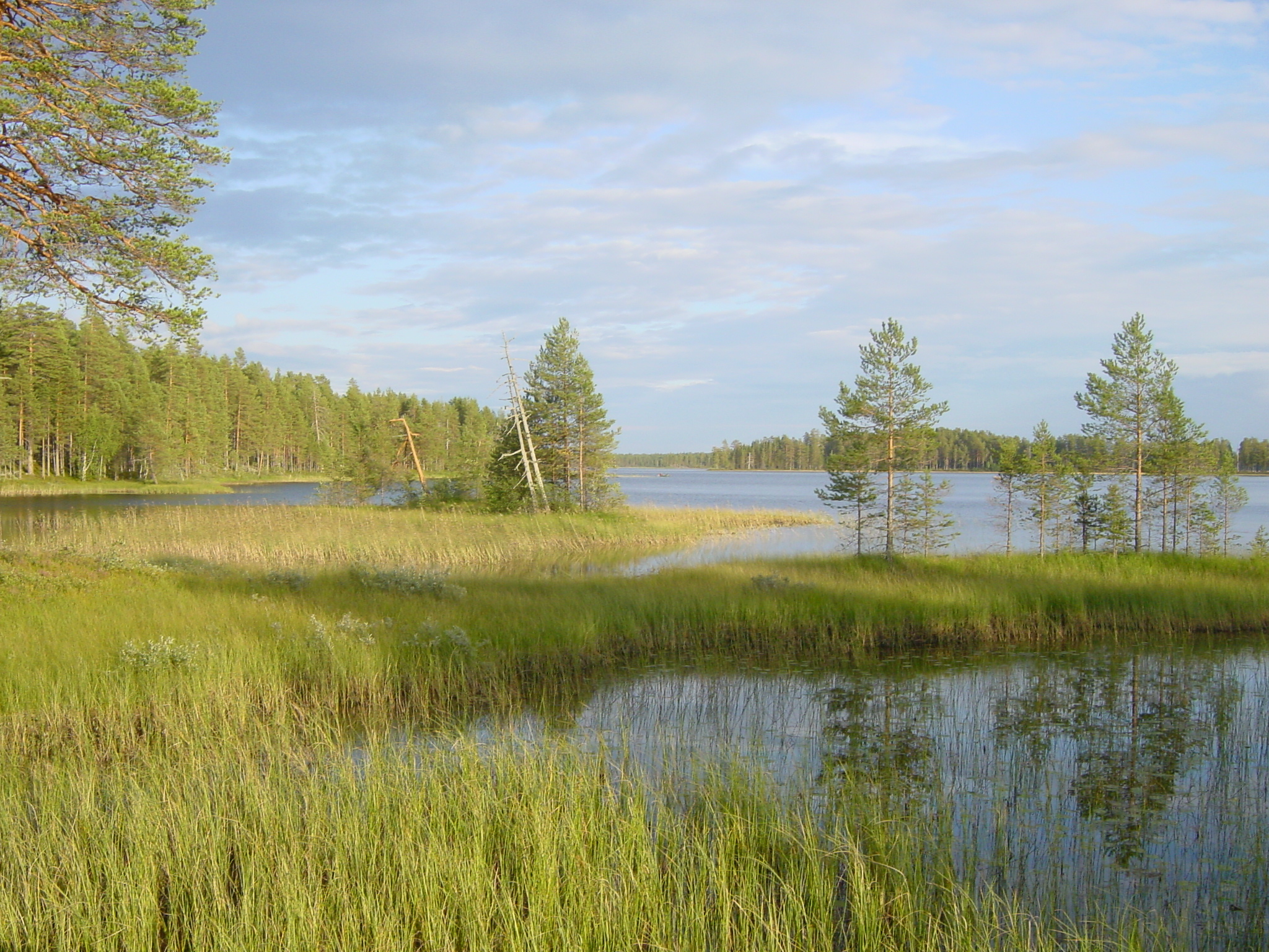 Lake Suomunjärvi in the Patvinsuo national park, Lieksa, Finland.